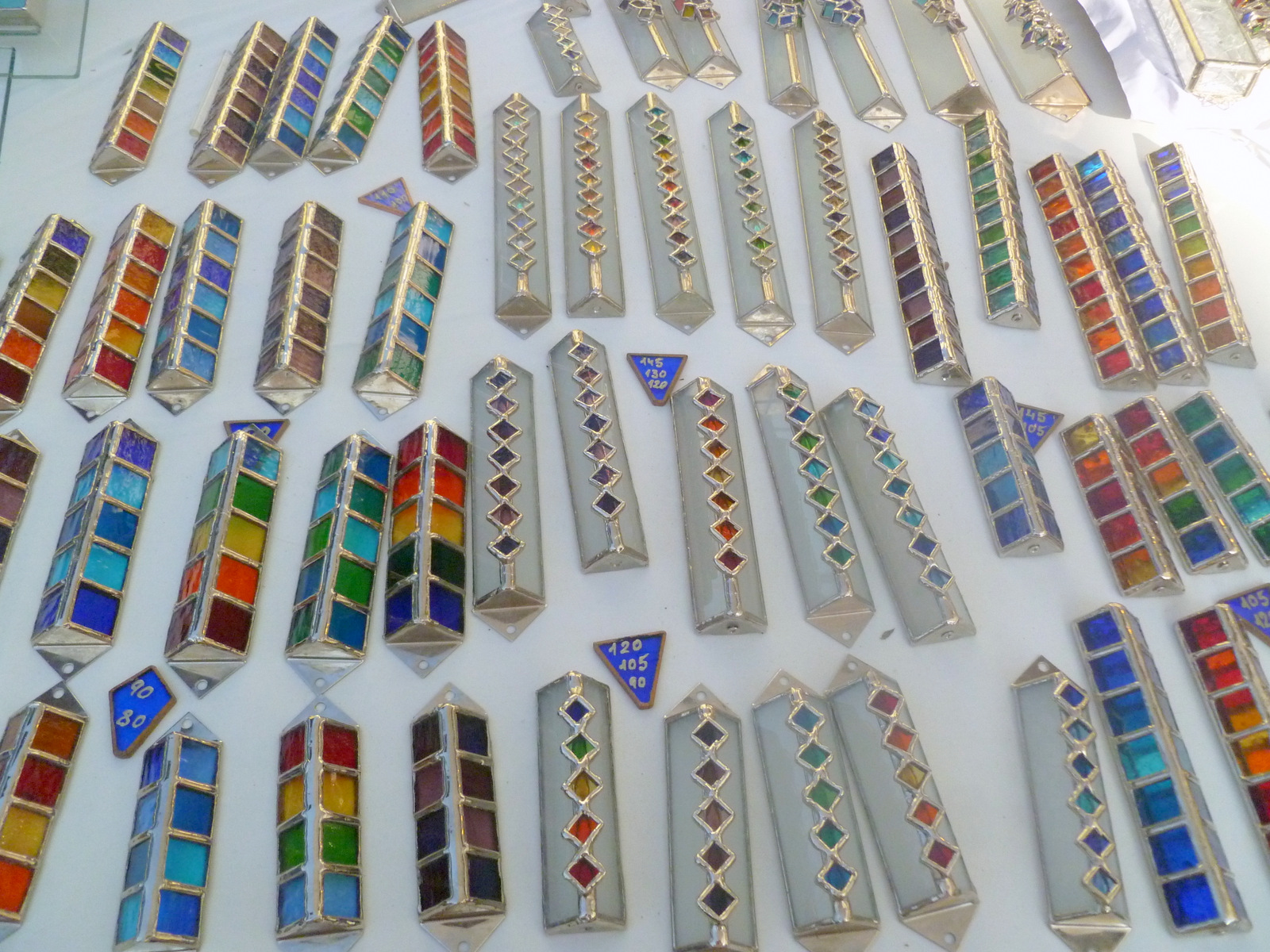 Nahlat Binyamin artists fair, Tourism in Israel